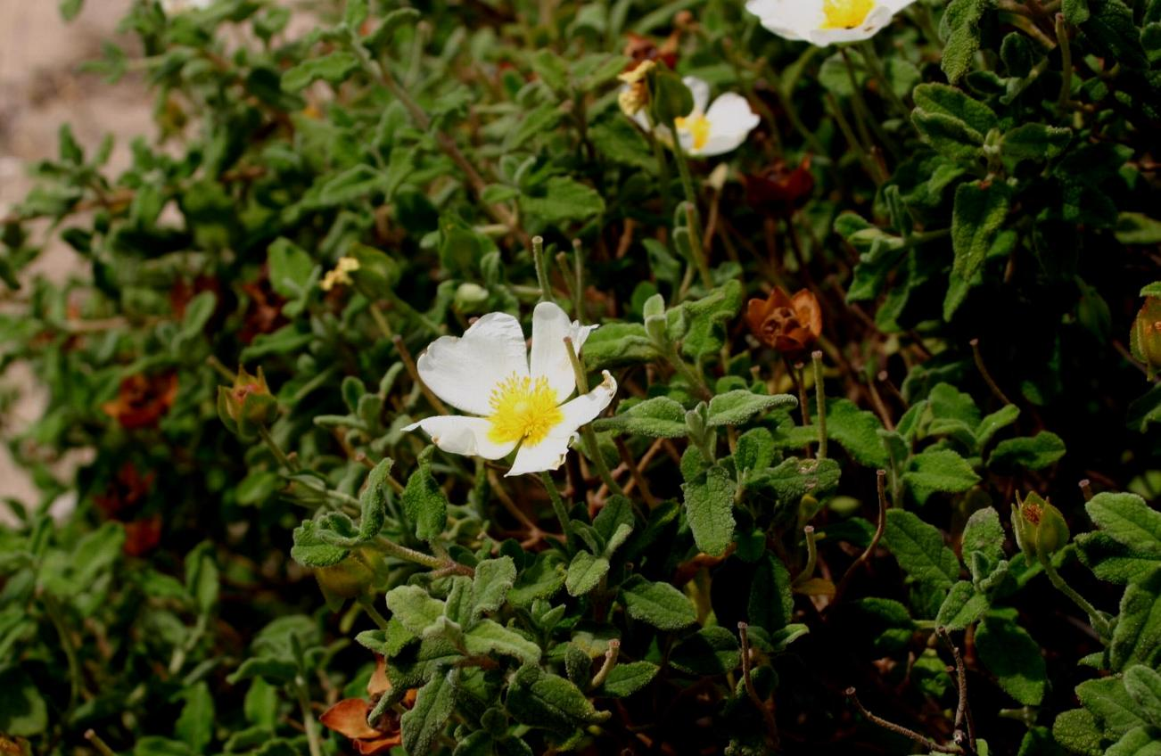 Cistus salvifolius: Flower and leaves. Macchia in Corsica.